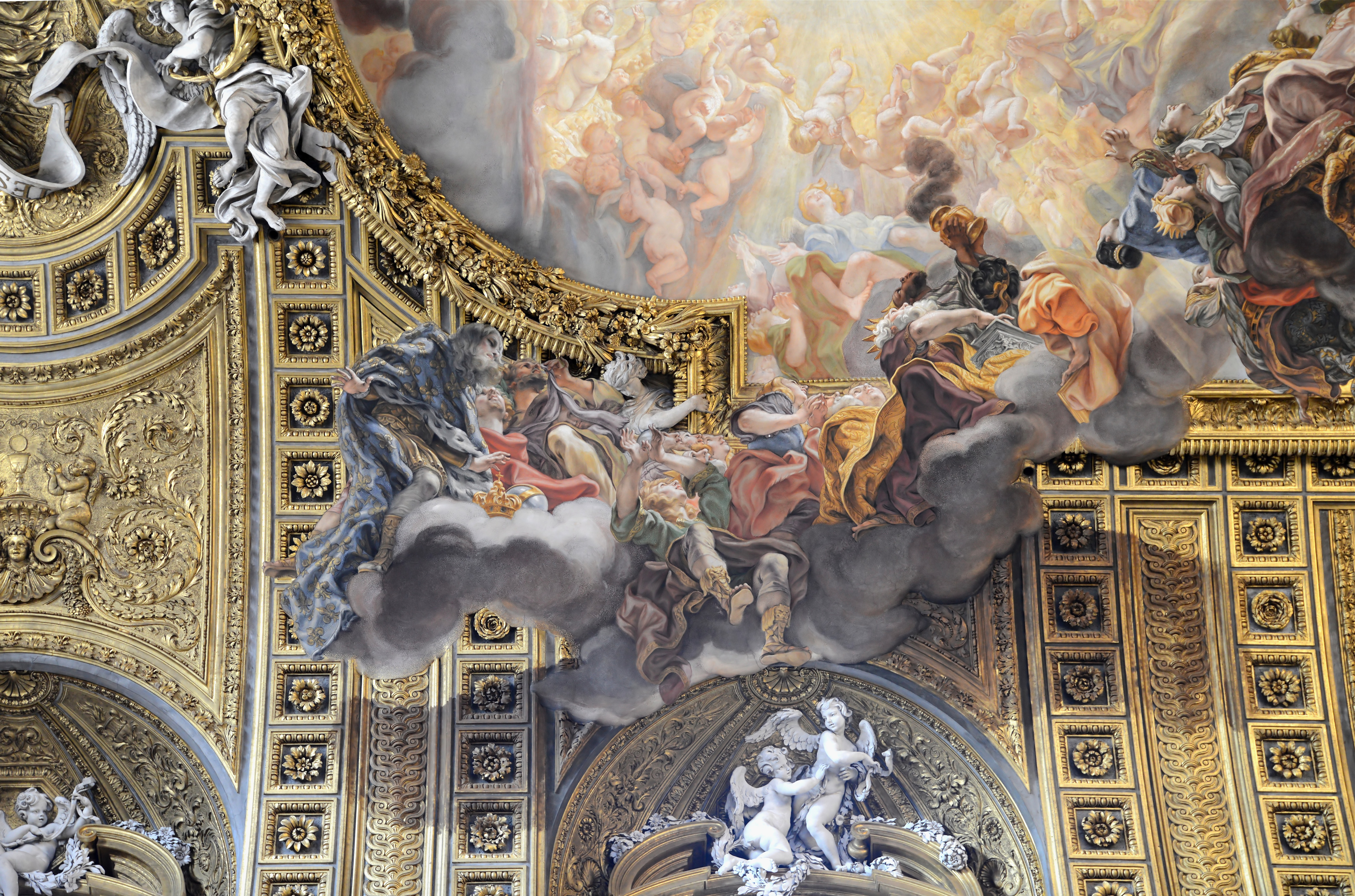 Church of Gesù, Rome. detail of the ceiling